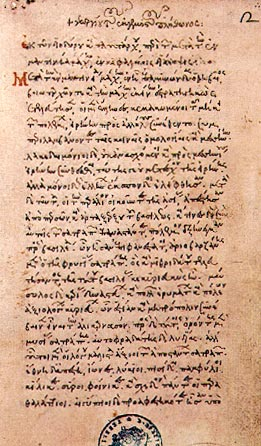 An original early 15th century manuscript in the hand of Georgios Gemistos Plethon, the famous secular philosopher and mystic who inspired the founding of the Florentine Platonic Academy.